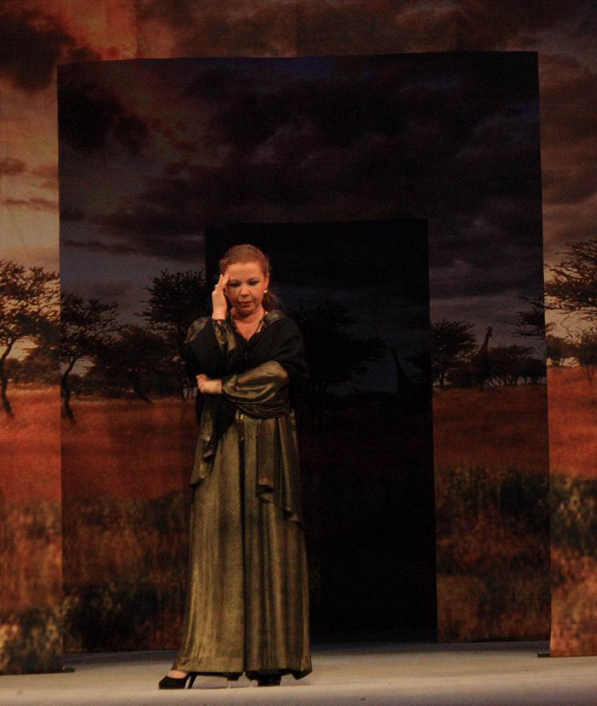 Tatiana Albertovna Abramova